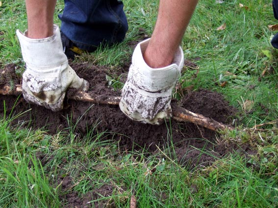 Rhizome of a Japanese knotweed in a garden in Oranienburg, Brandenburg, Germany